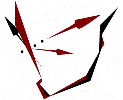 Logo of the Walvis Bay Corridor Group